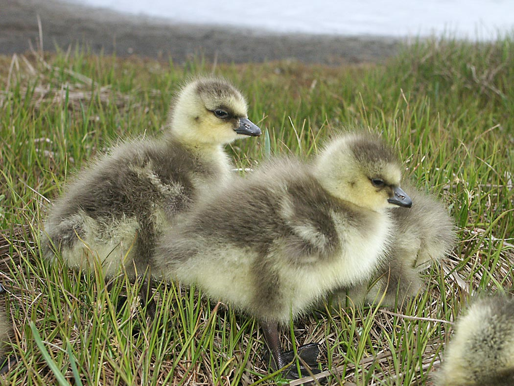 Small Cackling Goose (Branta hutchinsii) chicks